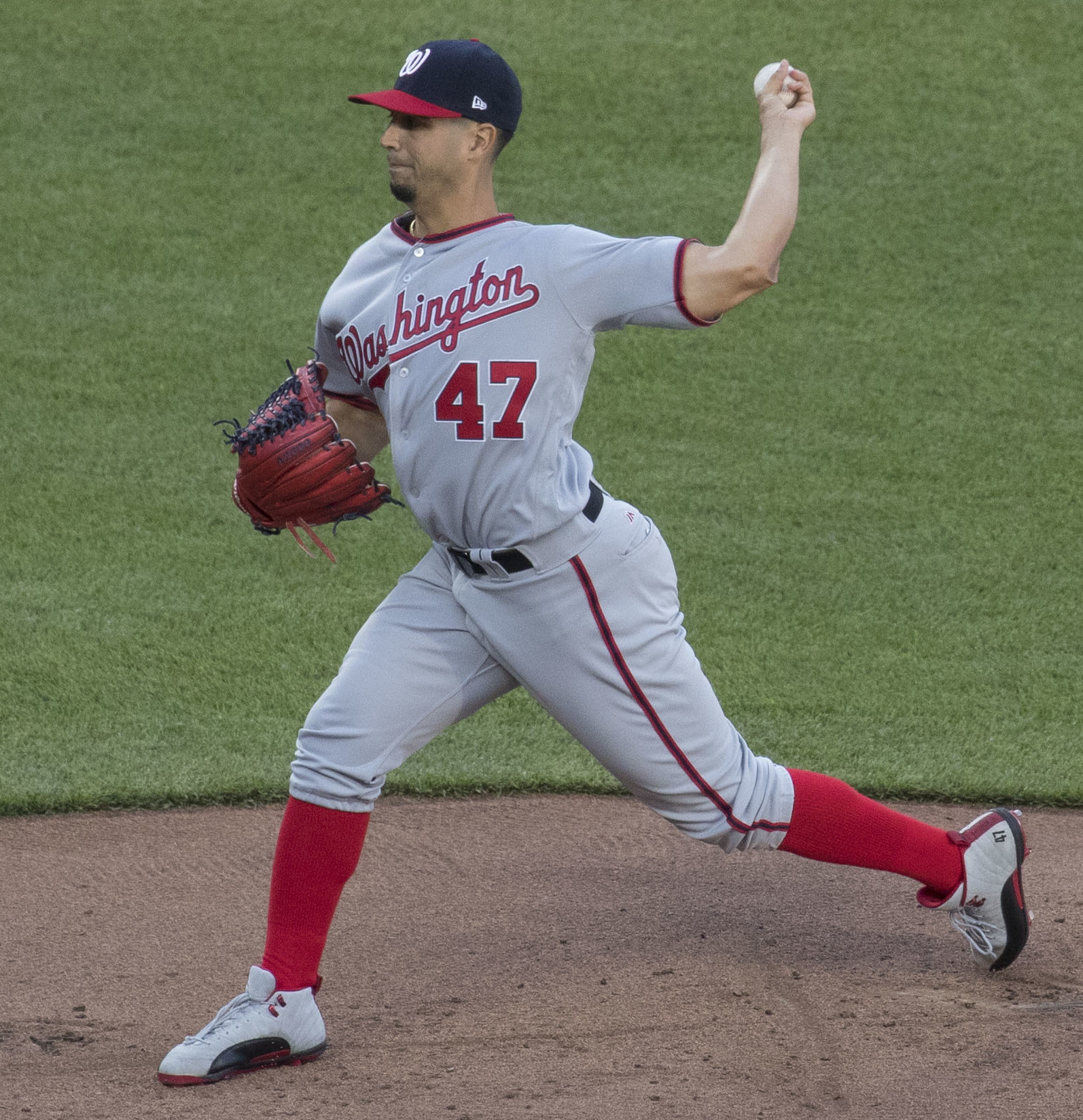 Gio Gonzalez of the Washington Nationals pitches in a game against the Washington Nationals at Oriole Park at Camden Yards on May 8, 2017 in Baltimore, Maryland.